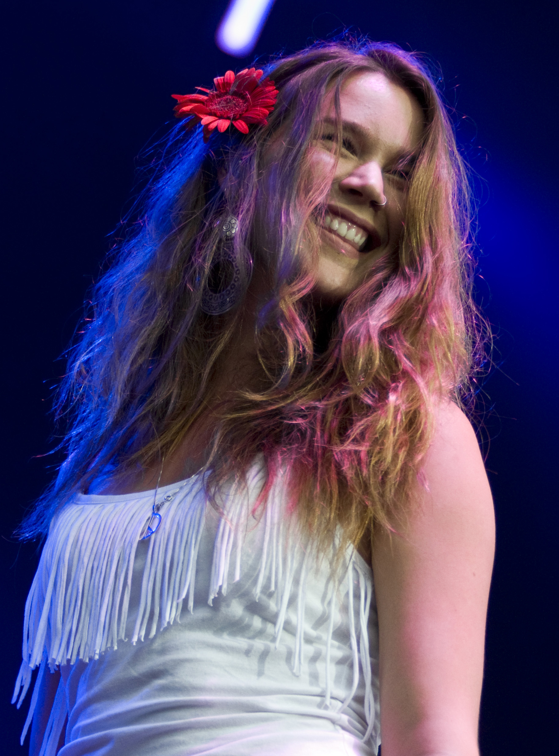 Joss Stone at Stockholm jazz fest, 19th July, 2009.